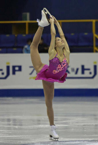 Becky Bereswill (USA) performs a Biellmann spin during her short program at the 2008-2009 Junior Grand Prix Final. She placed 4th in this segment of the competition and 1st overall.